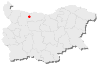 Map of Bulgaria, the red point is the position of Knezha.